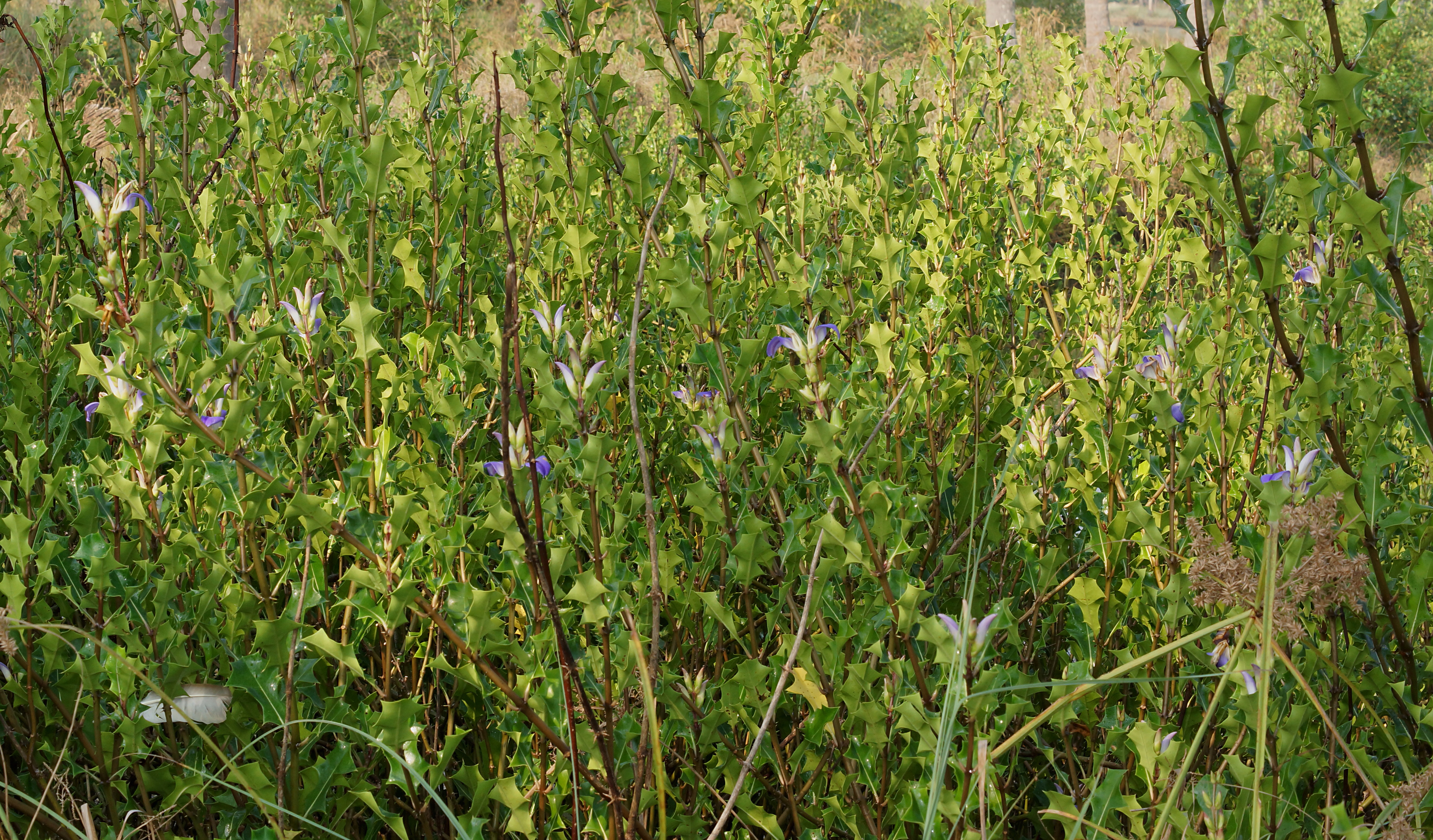 Acanthus ilicifolius (common names Holly-leaved acanthus, Sea Holly, and Holy Mangrove) is a species of plant in the genus Acanthus, native to India and Sri Lanka.